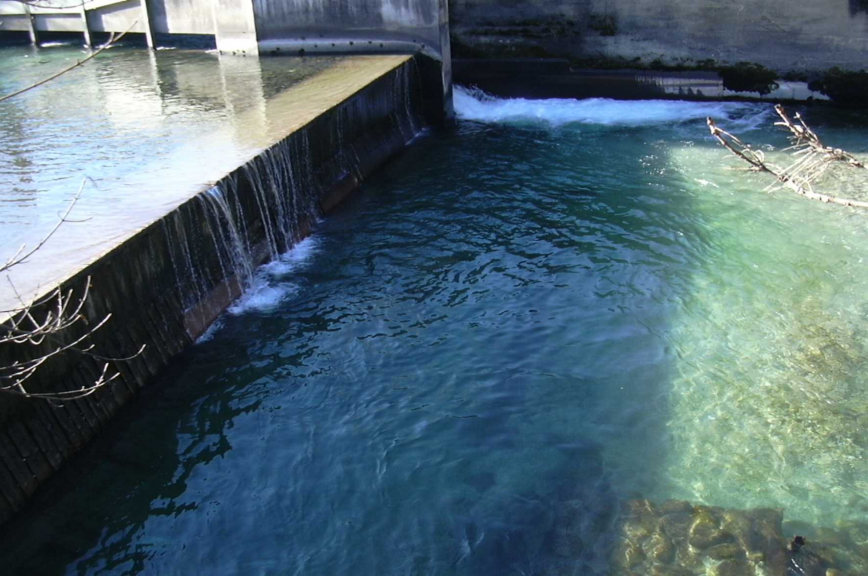 Waterfall 1 of the Sill River in Innsbruck